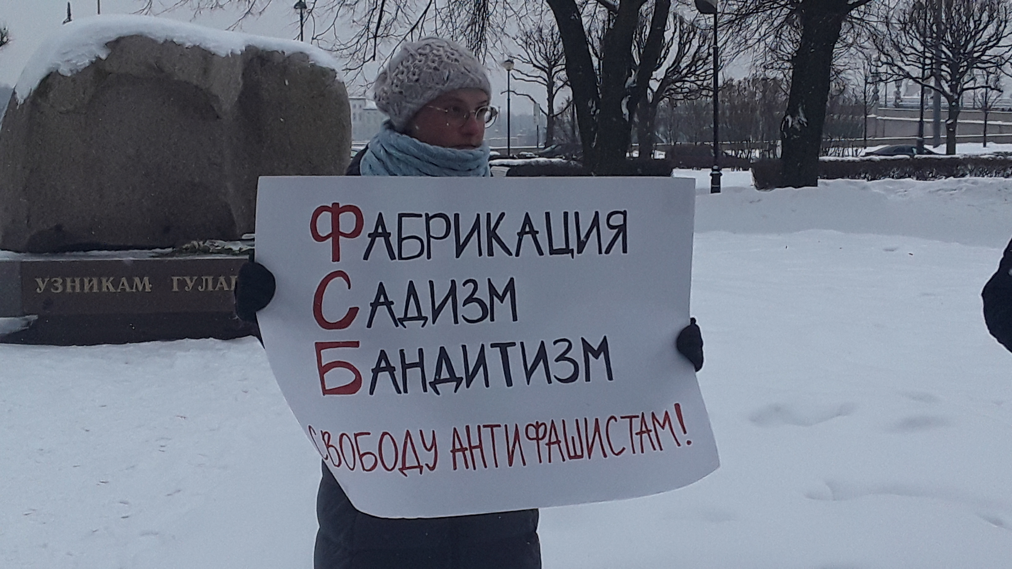 Protest rally against the FSB prosecution of anti-fascists. Solovetsky Stone in Saint Petersburg